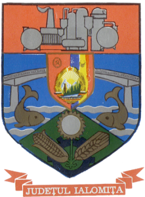 Communist coat of arms of Ialomița County, Socialist Republic of Romania.